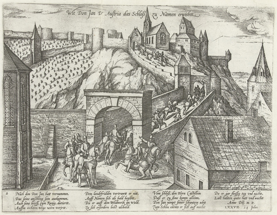 Don Juan conquest of the citadel of Namen, 24 juli 1577. A group of horseman taking the fortress by suprise